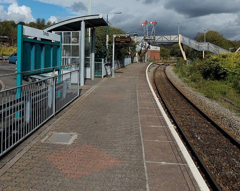 Passenger shelter at Tondu railway station